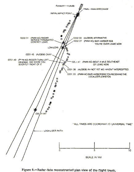 Flight Track of Bar Harbor Flight 1808 Accident